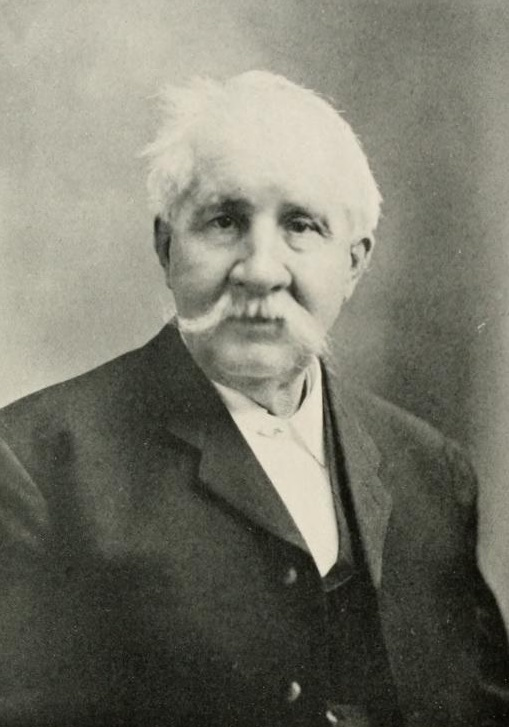 William G. Thompson (Iowa Congressman)